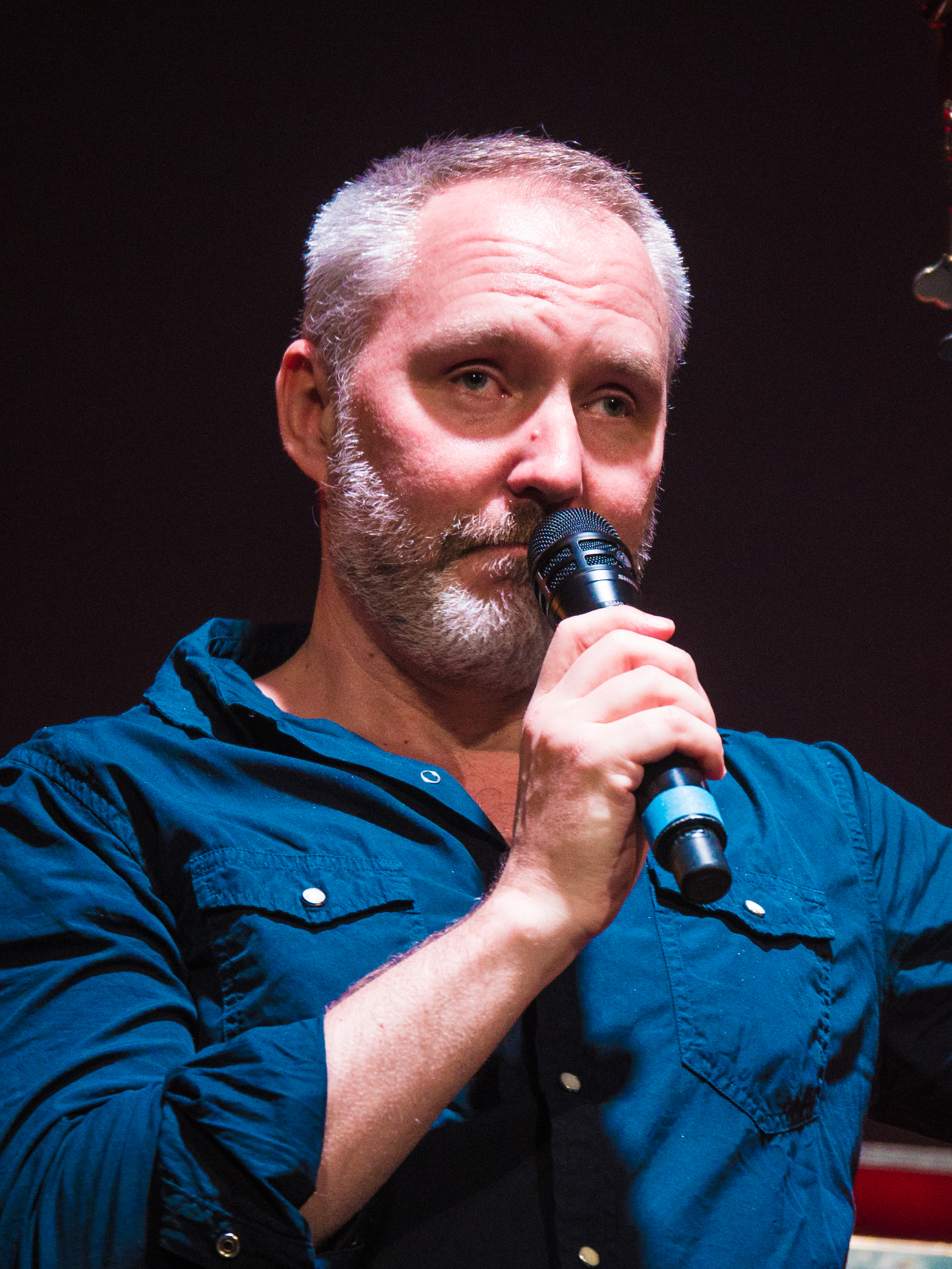 US-american jazz musician Reid Anderson at the Moers Festival 2017